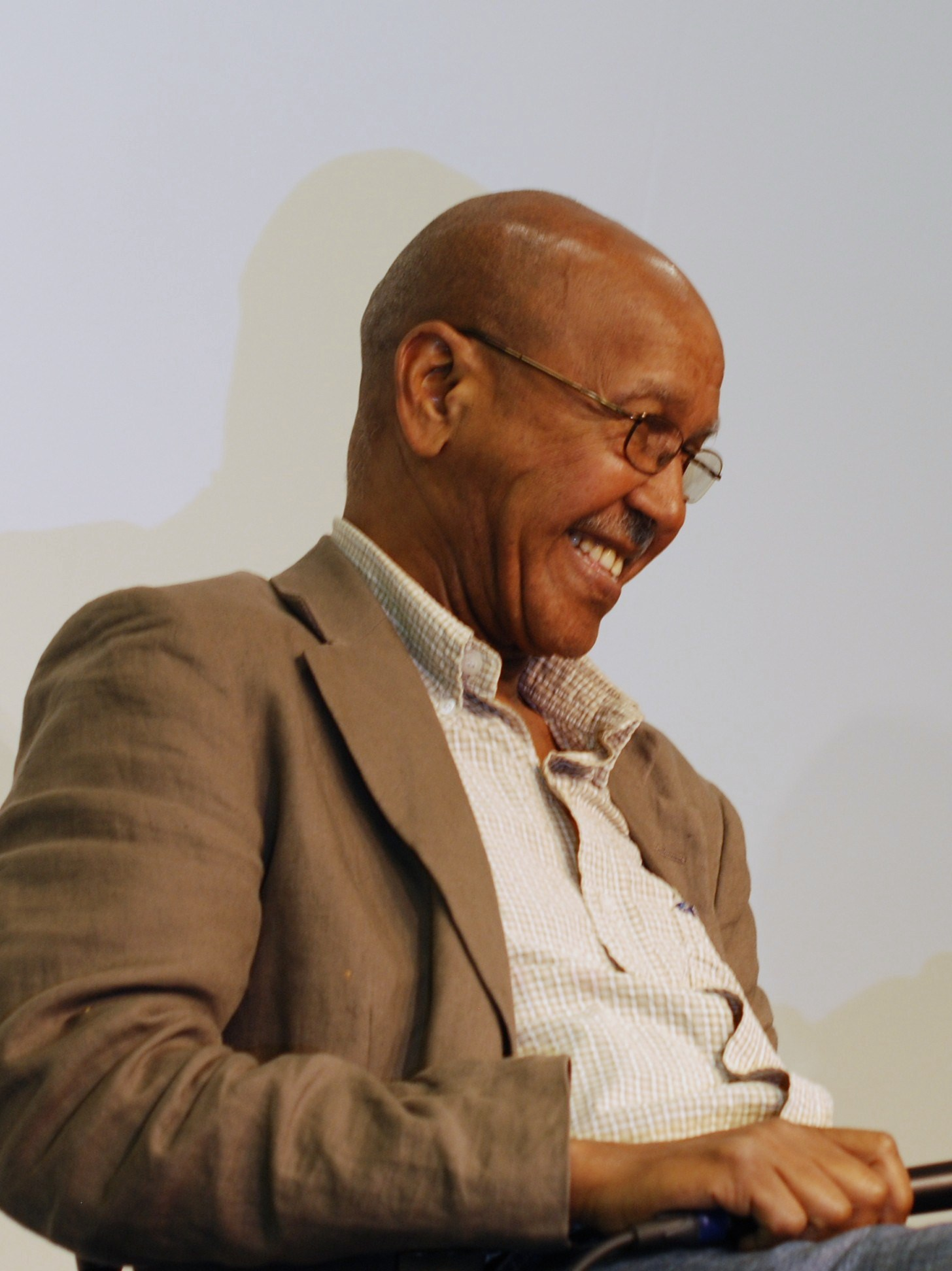 Somali writer Nuruddin Farah at the Göteborg Book Fair 2010